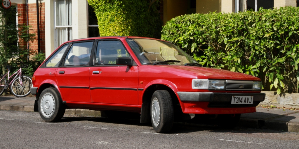 1999-registered Austin Maestro in Oxford, England